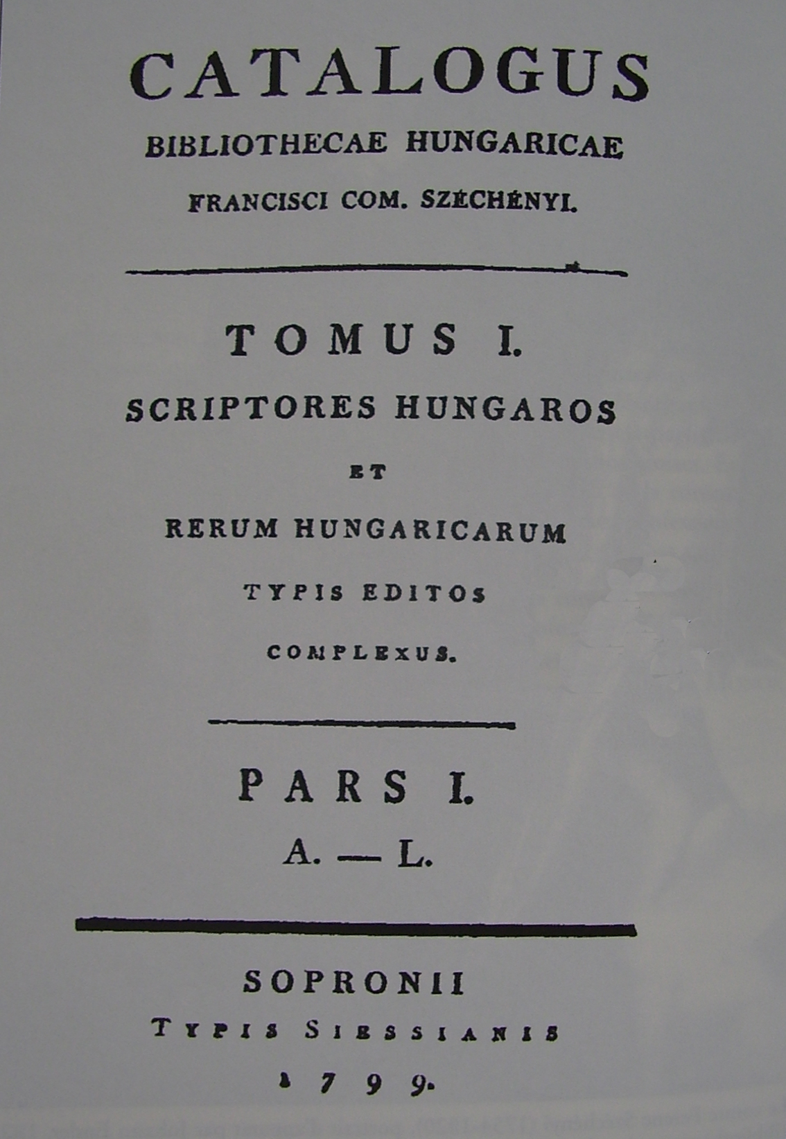 Page of library catalog of Hungarian patriot Ferenc Széchényi